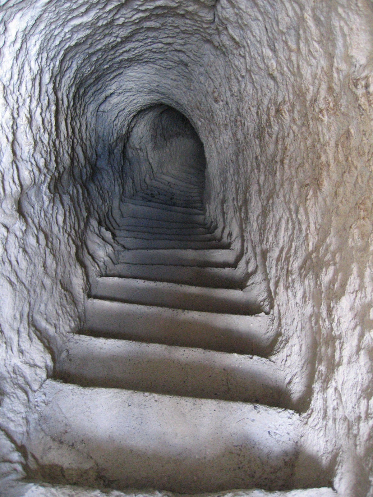 Vardzia in Aspindza district Georgia